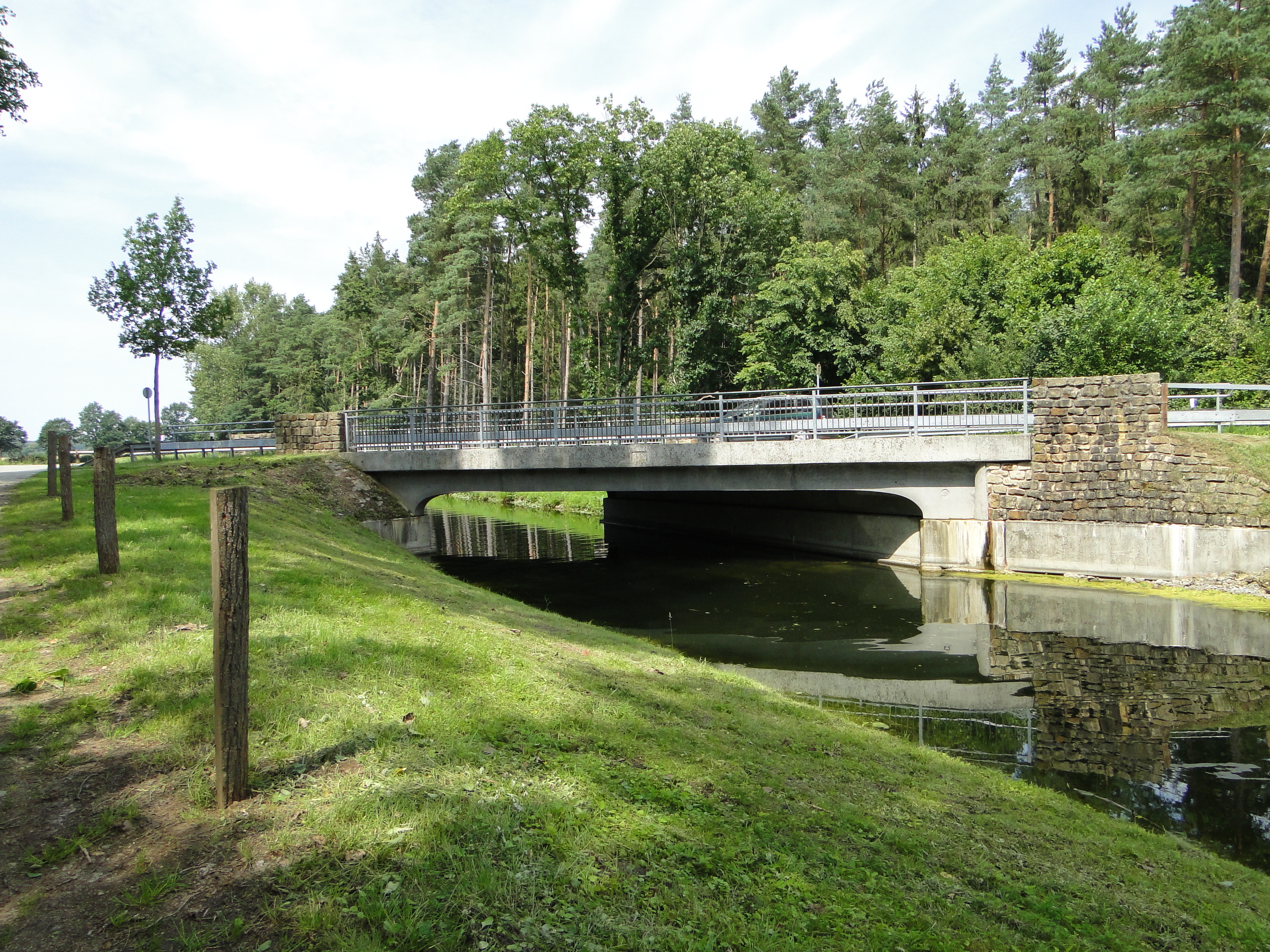 Road bridge over the Schaalseekanal in/near Schmilau, disctrict Herzogtum Lauenburg, Schleswig-Holstein, Germany